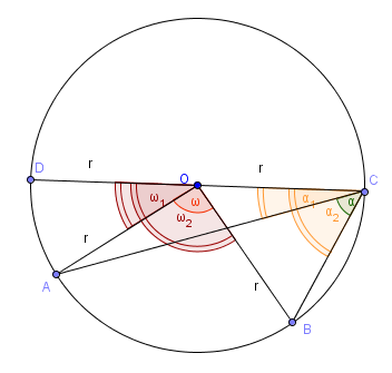 Inscribed angle case 3